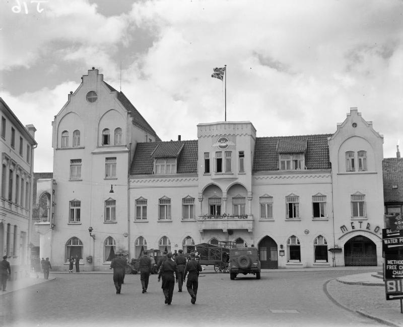 Germany Under Allied Occupation The exterior of the building housing the Royal Air Force's Malcolm Club in Schleswig, formerly the Stadt Hamburg Hotel.